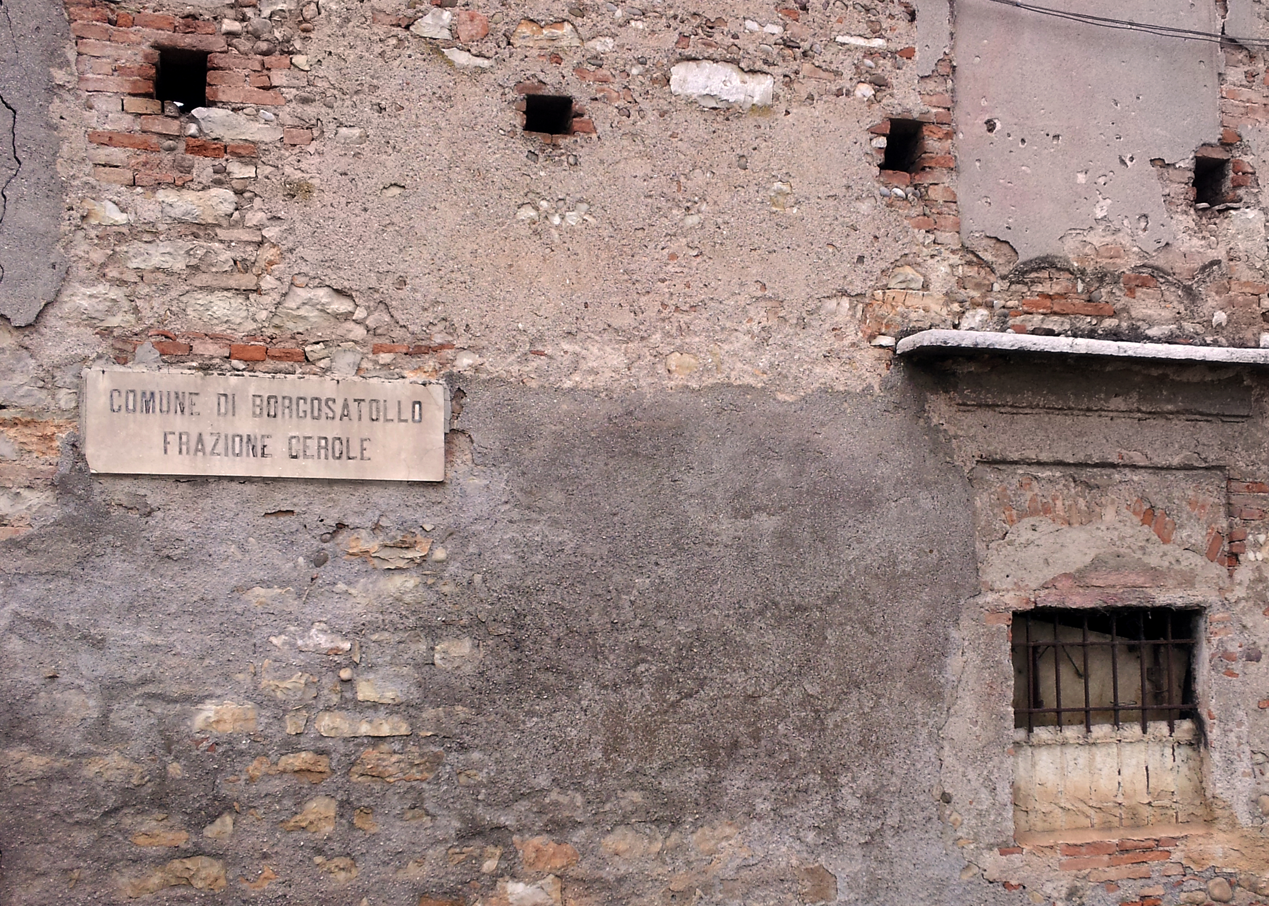 gerole